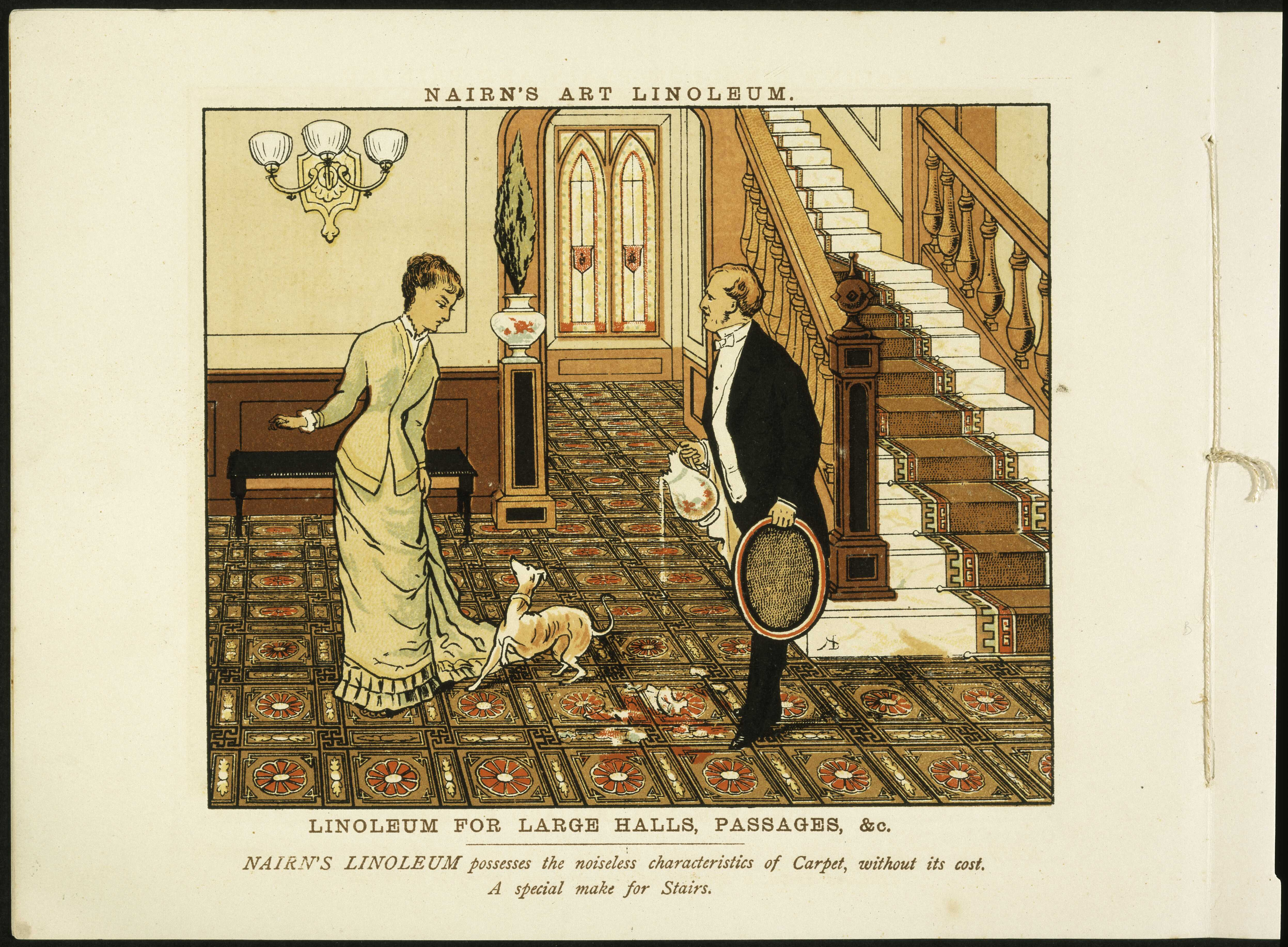 [Nairn's Linoleum] :Nairn's art linoleum. Linoleum for large halls, passages, etc. Nairn's linoleum possesses the noiseless characteristics of carpet, without its cost. A special make for stairs. [1878-1880?]. [Nairn's Linoleum] :Concerning Nairn's linoleum. The drawings illustrate various purposes for which linoleum floor-cloth is speciallly adapted. Nairn's Linoleum Floor-Cloth received the highest award, Paris Exhibition, 1878, in competition with all other makers, and is sold by all carpet warehousemen, upholsterers, and dealers in floor-coverings. [1878-1880?]. Ref: Eph-A-DECOR-1878-01-06. Alexander Turnbull Library, Wellington, New Zealand. /records/22729926